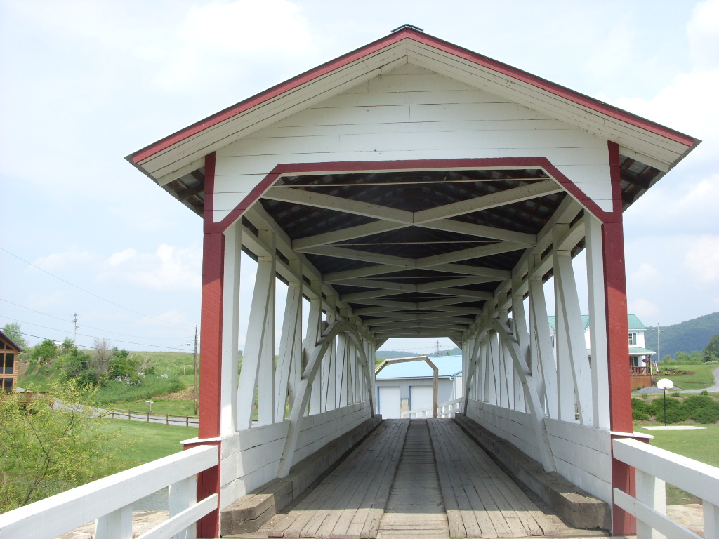 Western end of the Halls Mill Covered Bridge, located north of Everett in Hopewell Township, Bedford County, Pennsylvania, United States. Built in 1872, this Burr truss covered bridge is listed on the National Register of Historic Places.